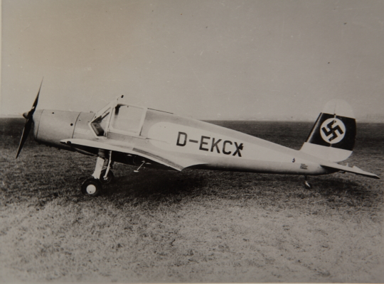 Arado Ar 79 sportsplane.